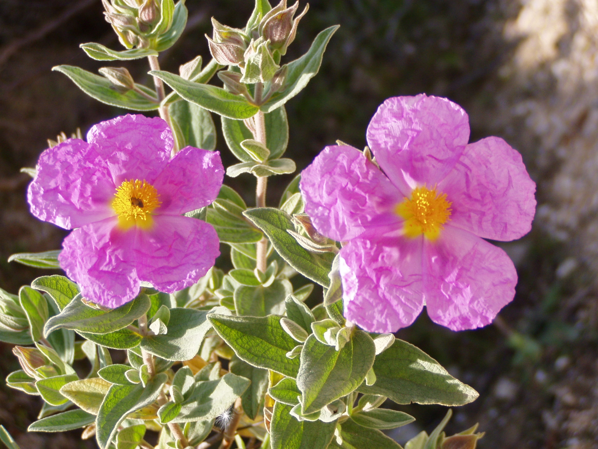 Spring Rock-rose